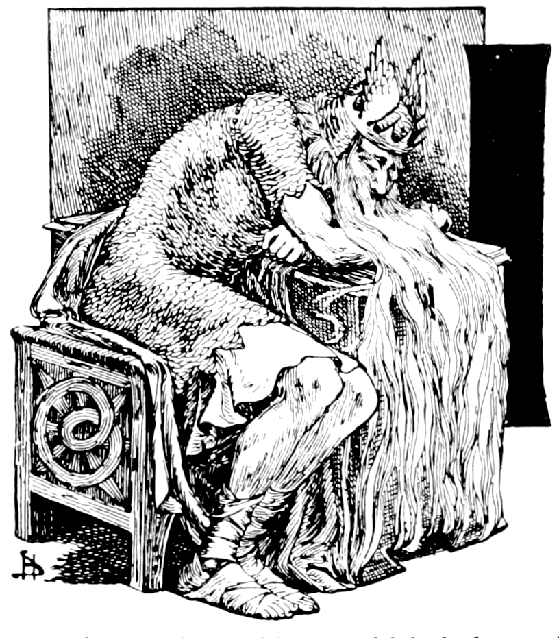 Illustration to "The Goloshes of Happiness" in a collection of Anderson's Fairy tales.